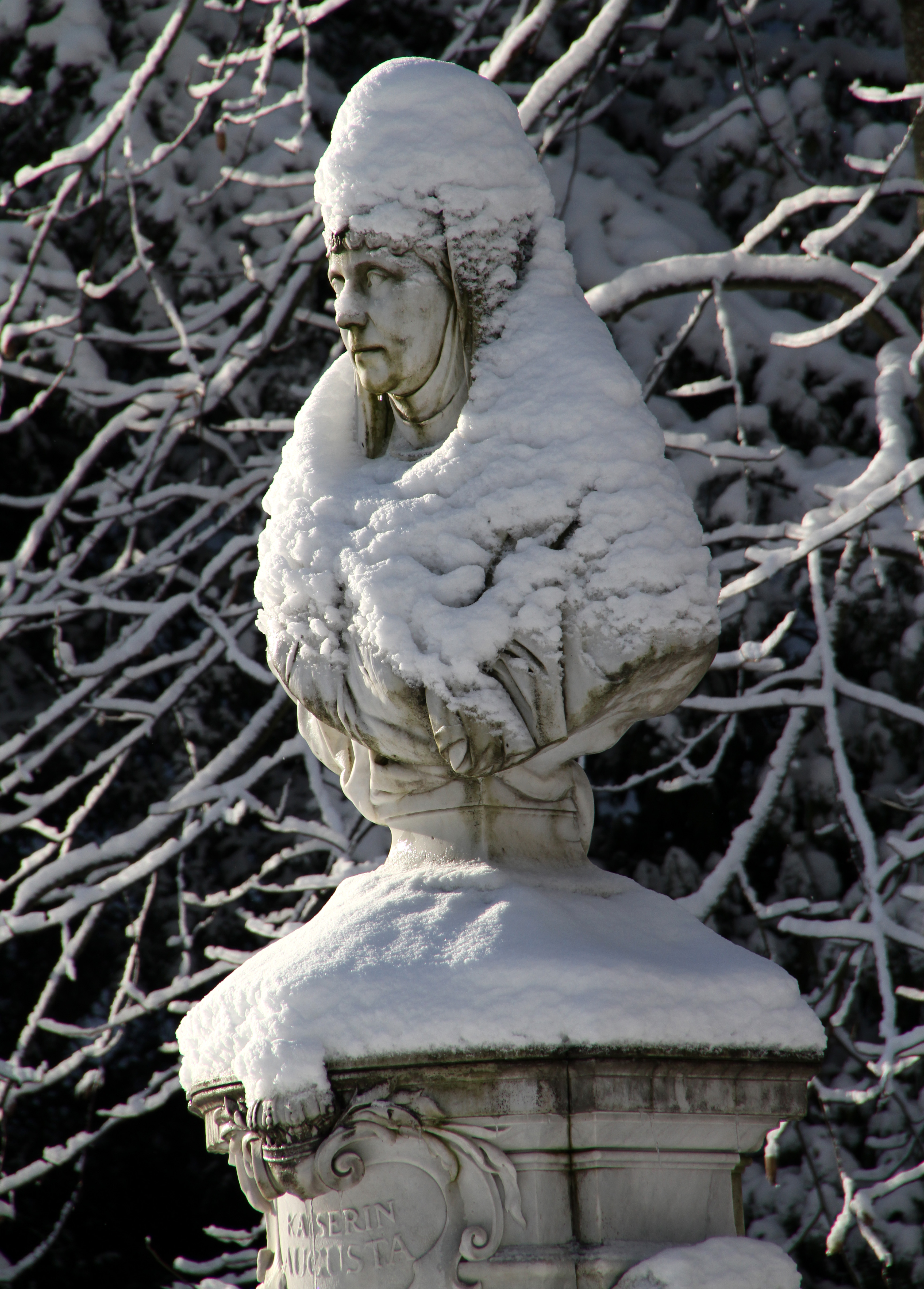 Bust of the Empress Augusta (1811-1890) by Joseph von Kopf (1827-1903) in the Lichtentaler Allee in Baden-Baden.